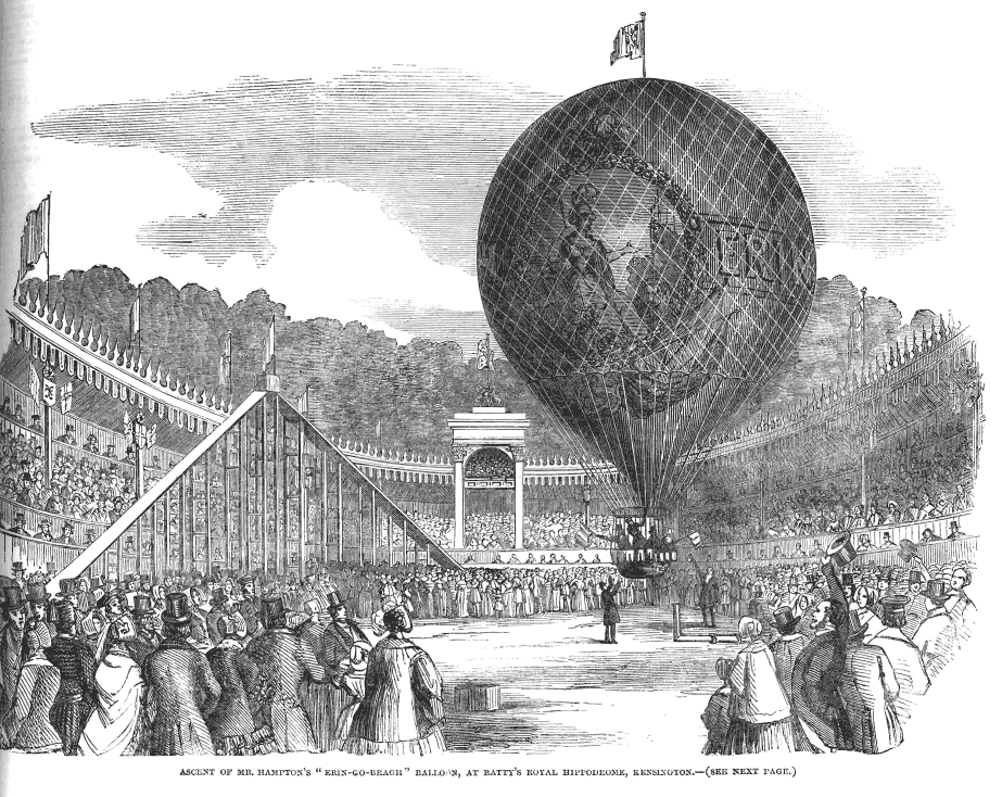 "Ascent of Mr. John Hampton's "Erin-Go-Bragh" balloon, at Batty's Royal Hippodrome, Kensington." The "Erin-Go-Bragh" was the first hot air ballon built in Ireland and Hampton performed parachute jumps from it in Dublin in April 1848. Batty's Hippodrome opened in 1851 and closed after a second season in 1852.